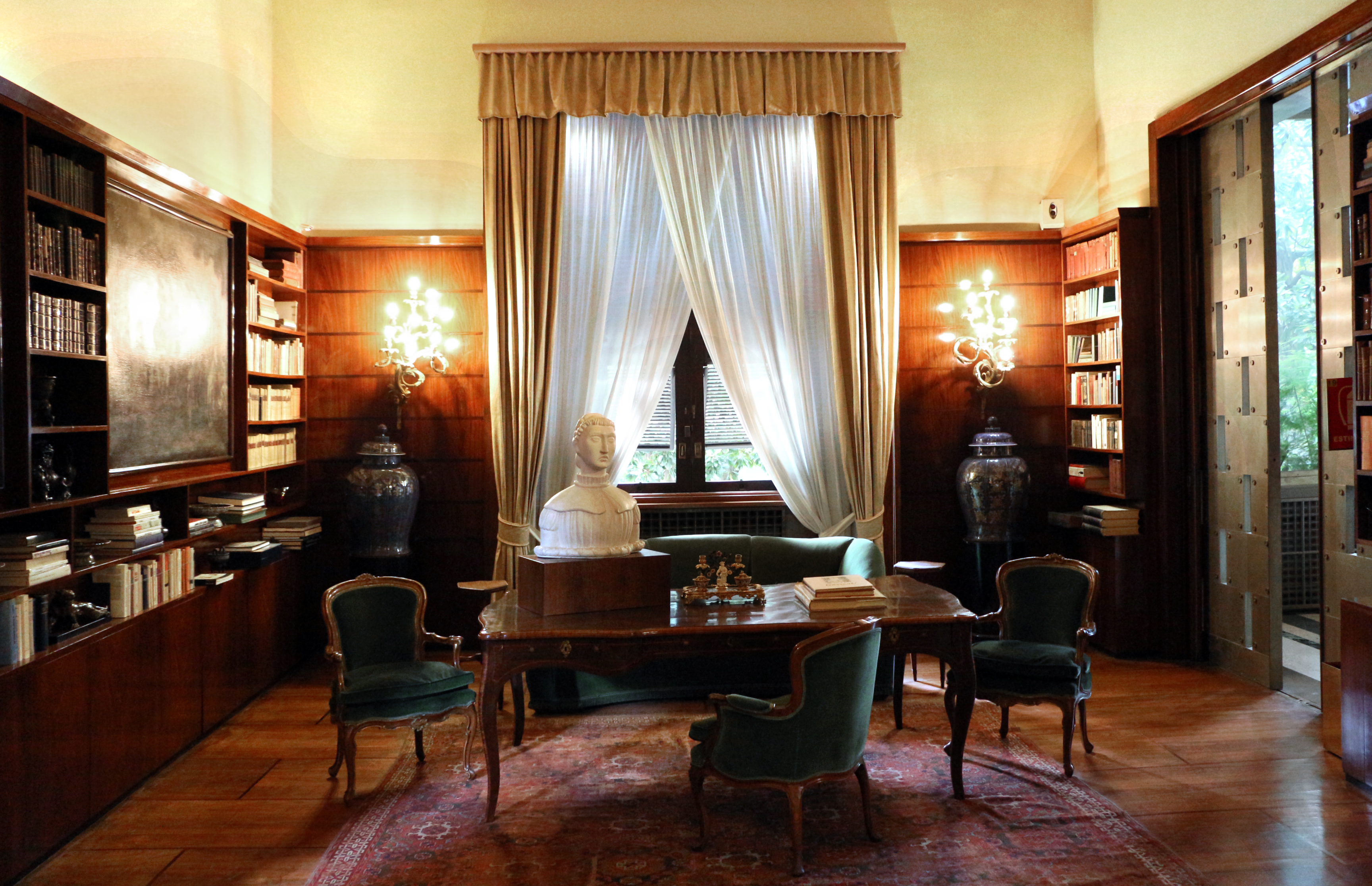 Villa Necchi Campiglio (Milan) - Interior